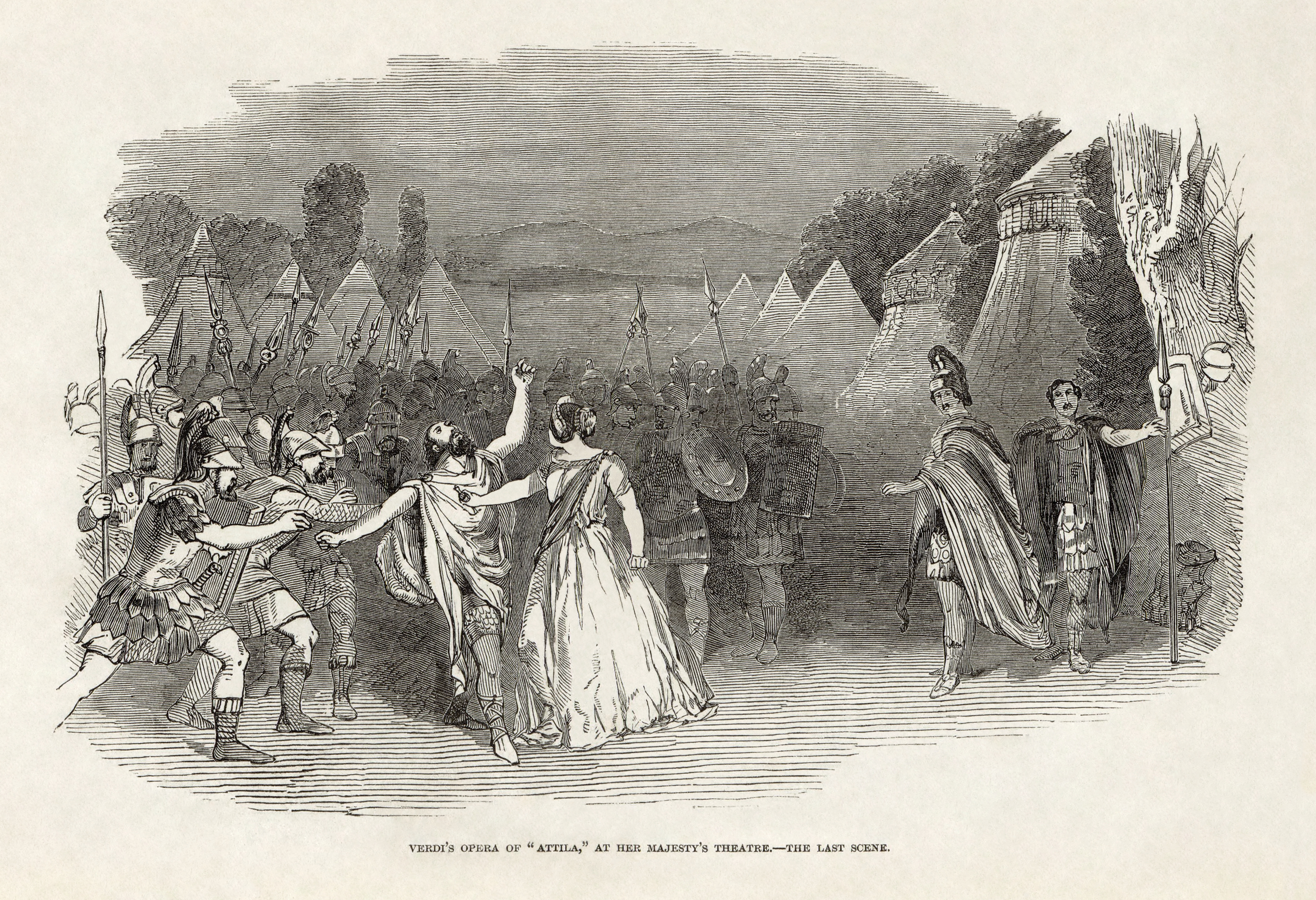 Giuseppe Verdi's Attila at Her Majesty's Theatre, London, from The Illustrated London News of April 15, 1848.